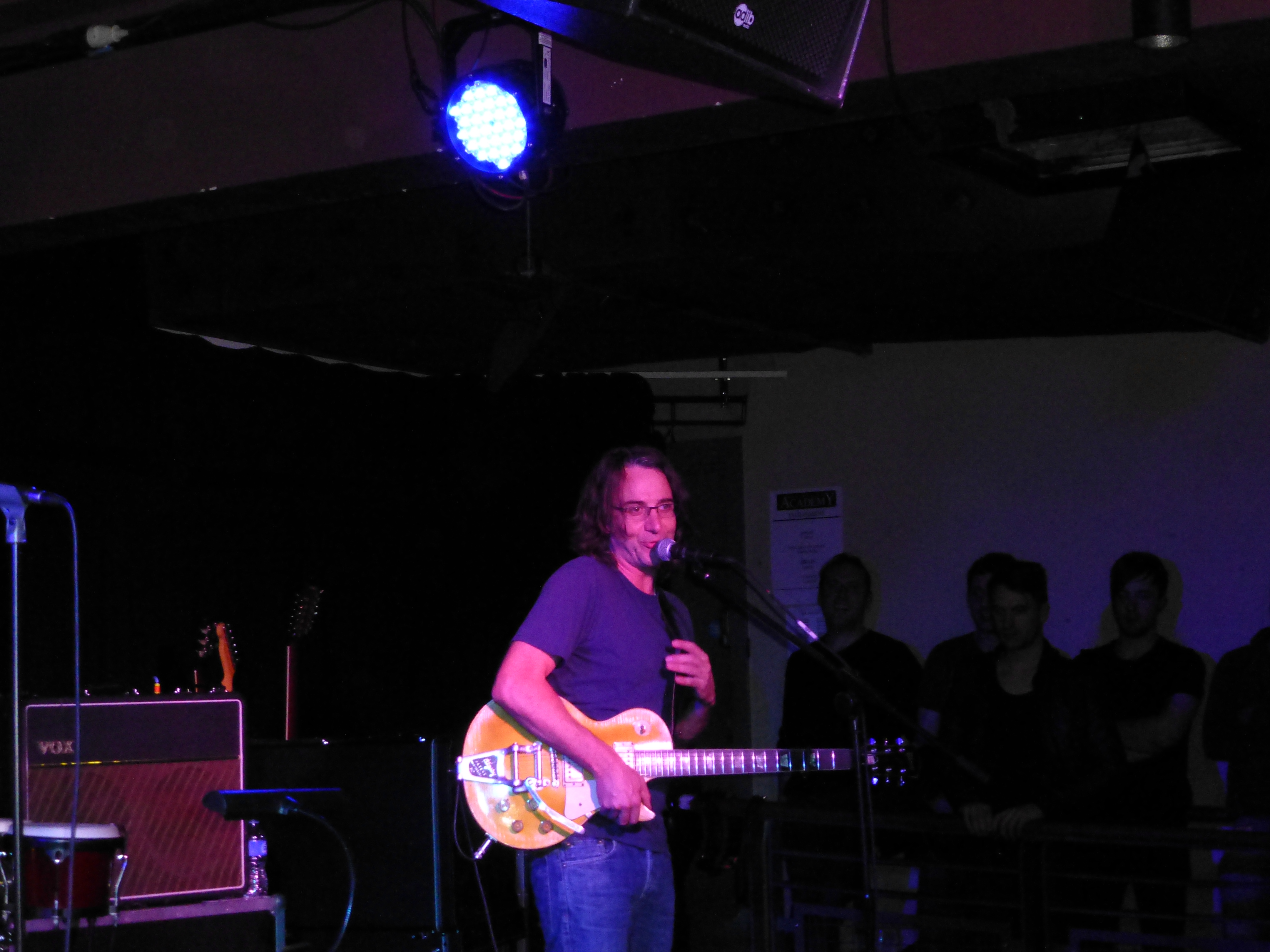 Stone Gossard of Brad in Manchester, England on 8th Feb 2013